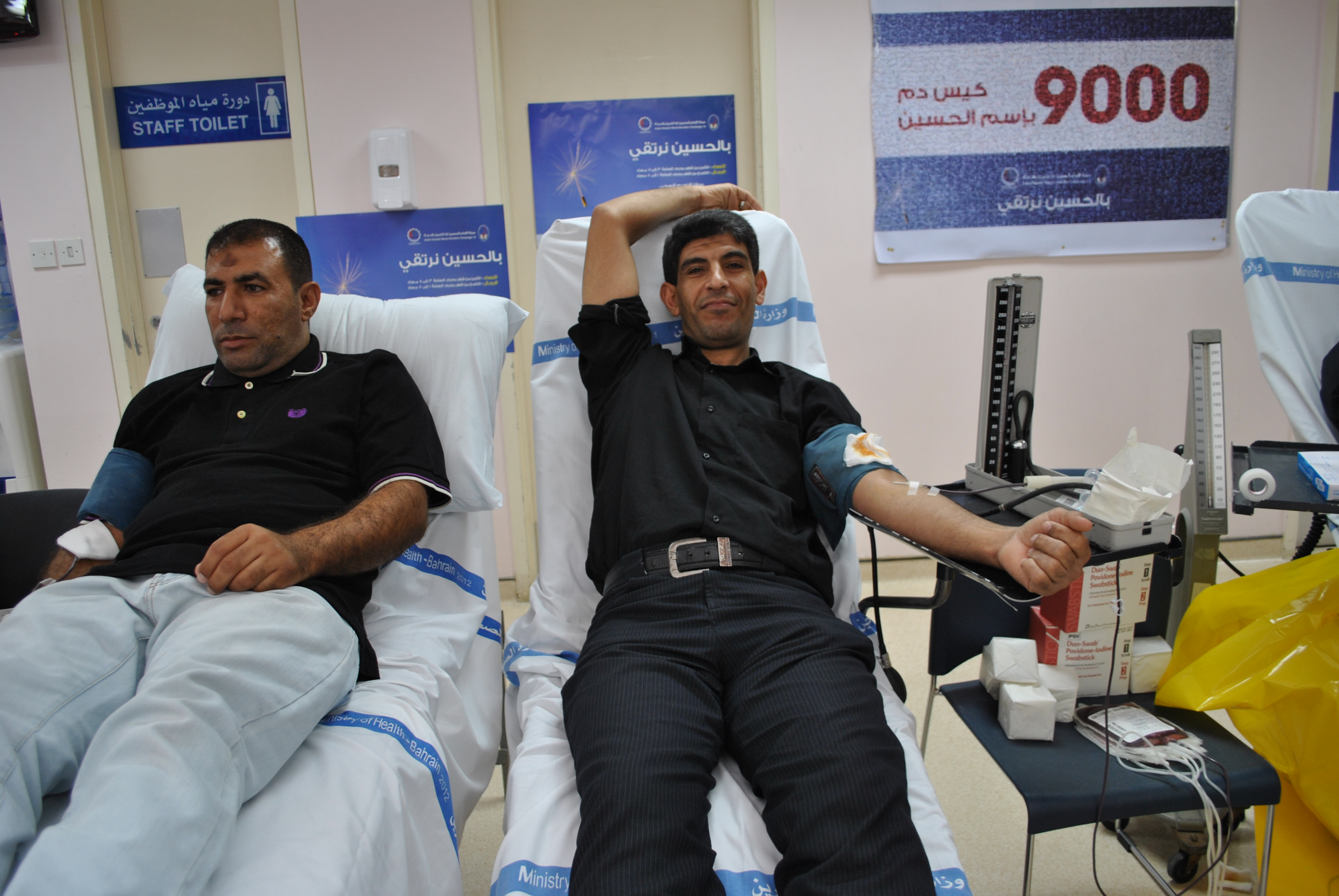 Two Bahraini Shia muslims donate their blood during Imam Hussain Blood Donation Campagin 14.